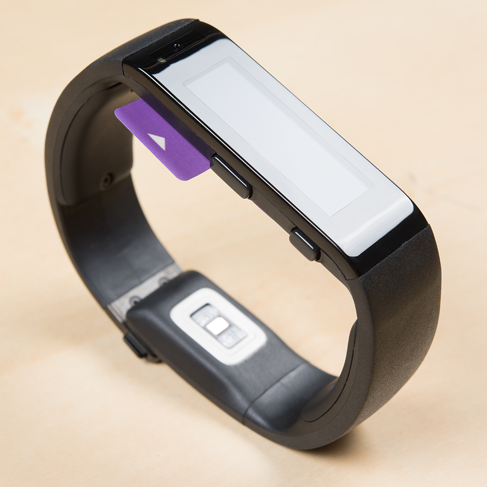 a 1st-generation Microsoft Band being torn down